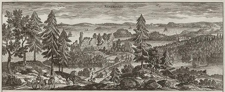 Almarestäket in Sweden, Almerstääk